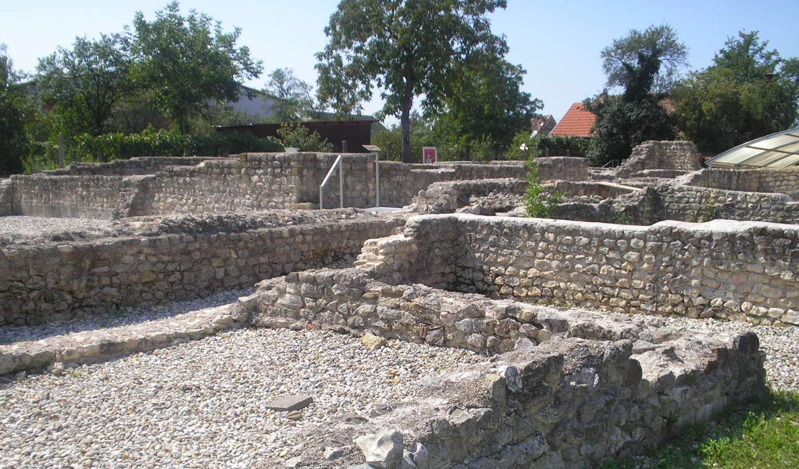 Roman village Andautonia, Croatia